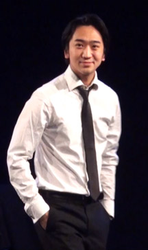 live at The Improsarios show, London